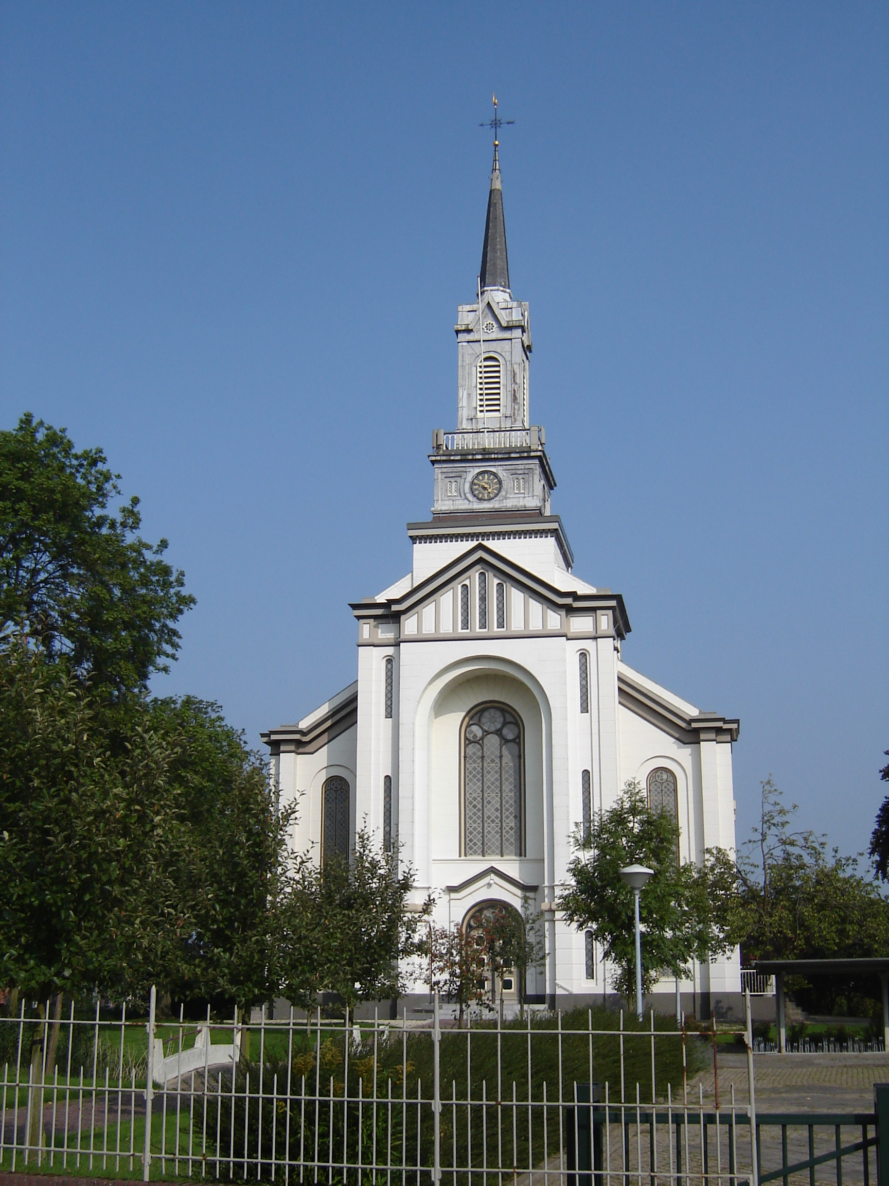 "Nicolauskerk" (Church of Saint Nicholas) in Wolphaartsdijk, Goes, Zeeland, Netherlands.